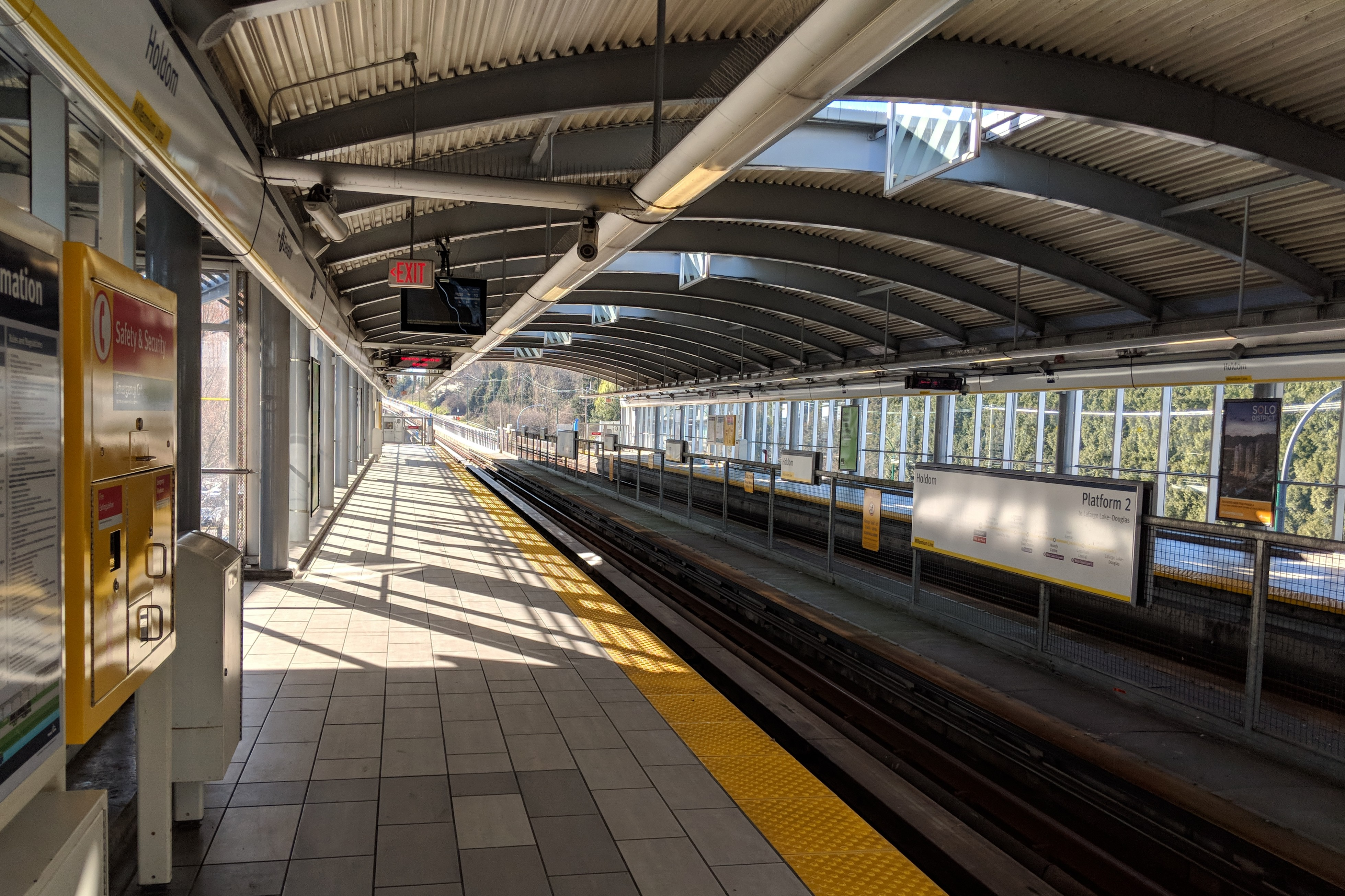 Platform level at Holdom station in Mach 2019.